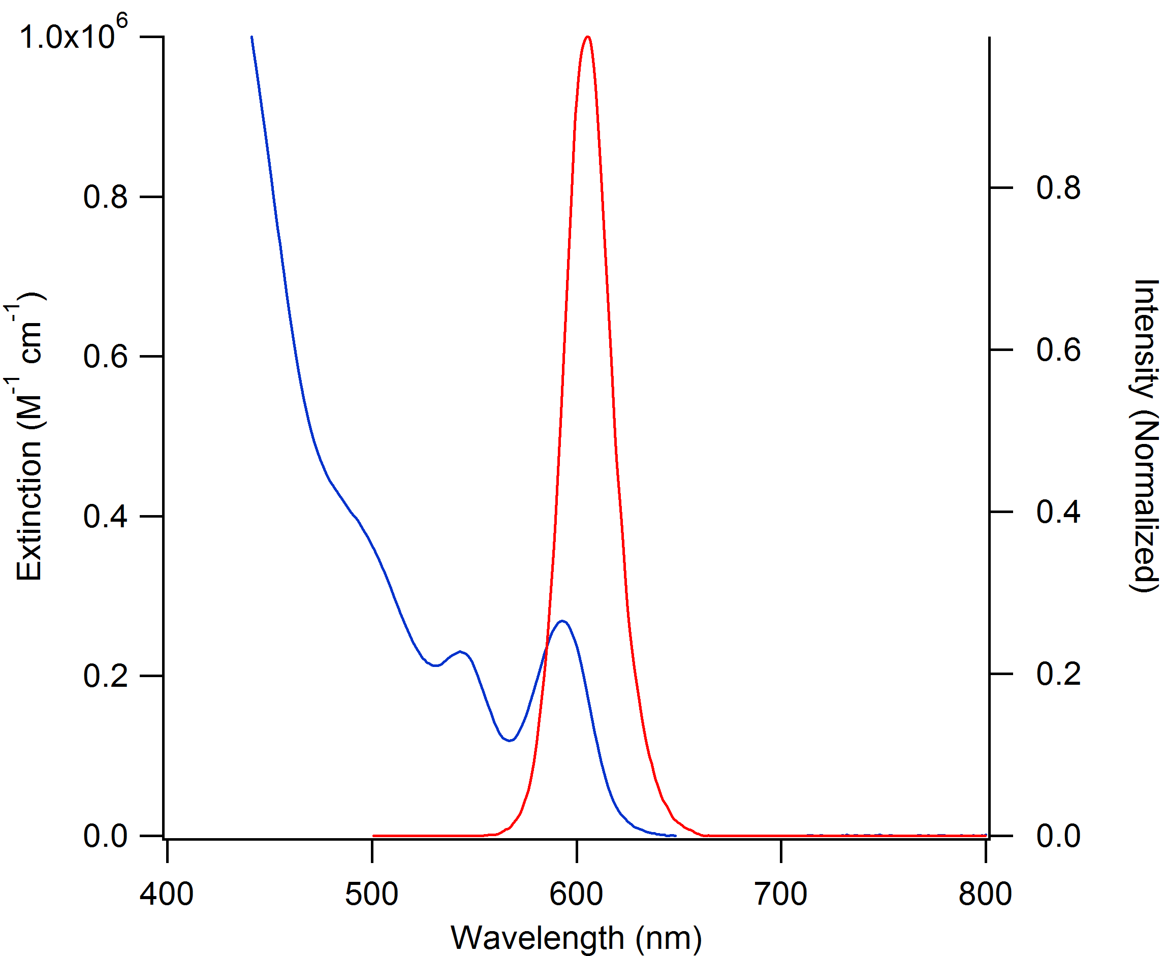 Extinction and photoluminescence spectra for eFluor 605 nanocrystal